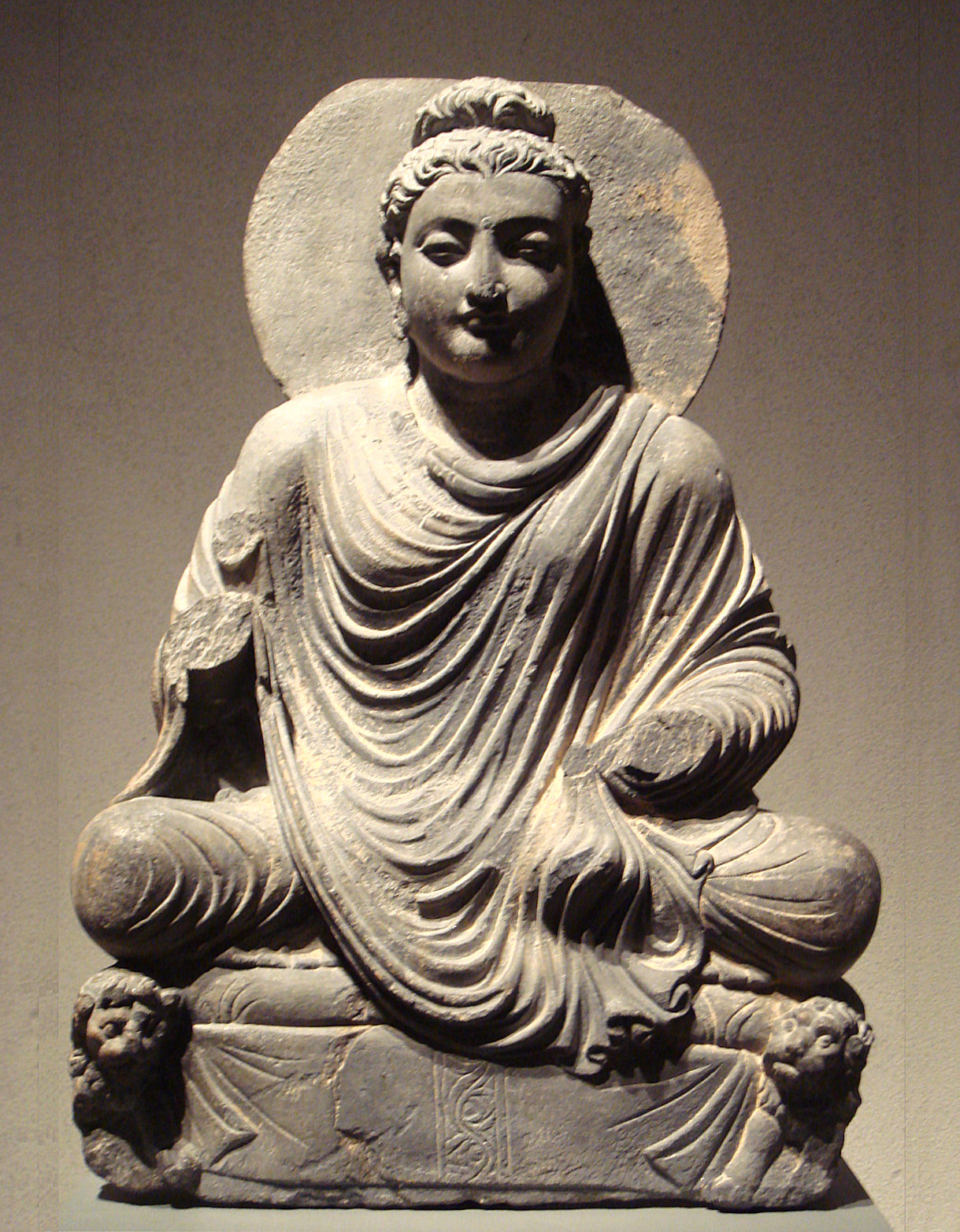 SeatedBuddhaGandhara2ndCentury